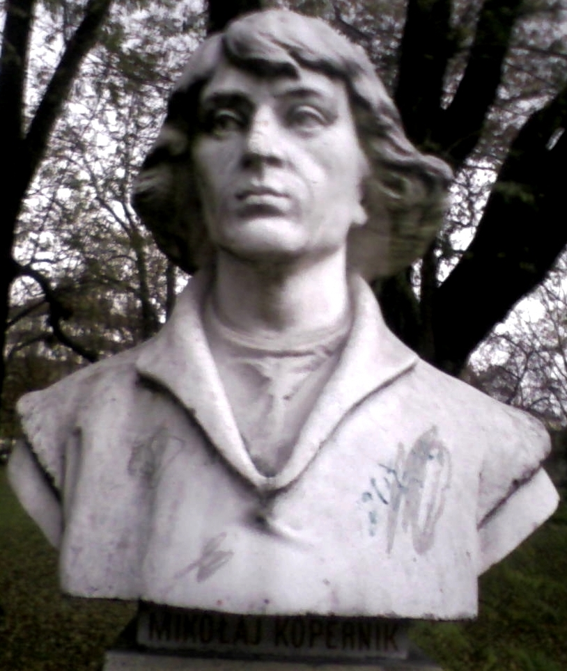 Kopernik.JPG Bust of Nicolaus Copernicus at Jordan Park, Kraków.